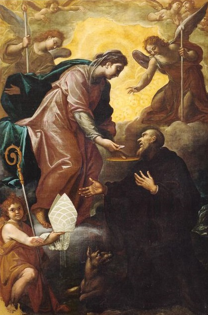 Cristoforo Roncalli "il Pomarancio": Comunione di San Silvestro, oil on canvas. Museo civico, Osimo (originally in the church of San Silvestro)